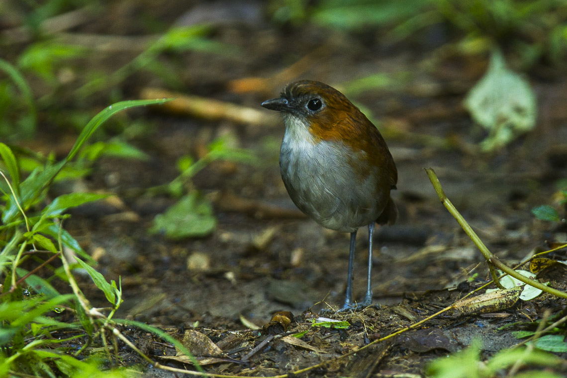 White-bellied Antpitta (Grallaria hypoleuca) - San Isidro - South Ecuador_S4E3747